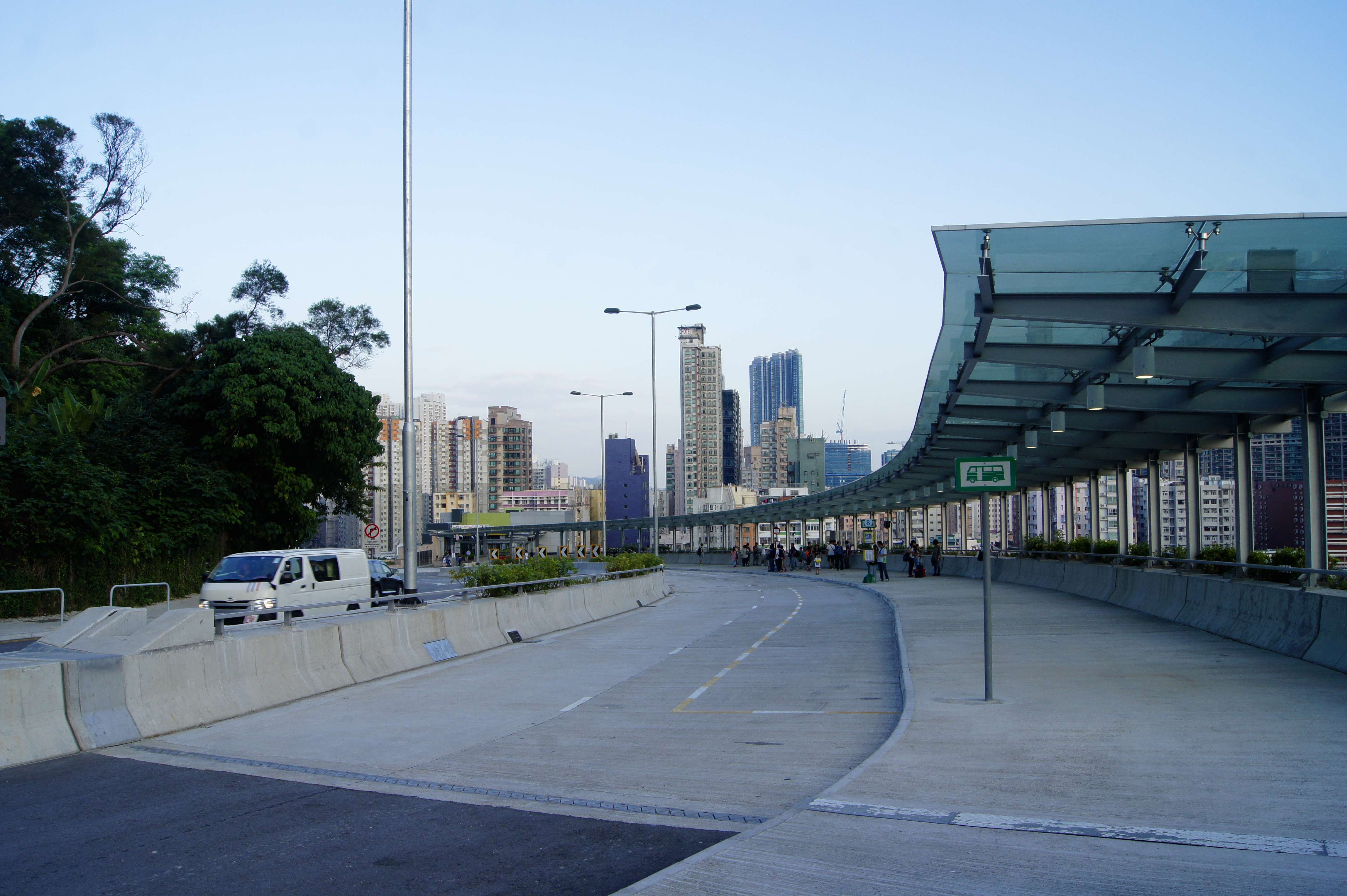 MTR Ho Man Tin station Public Transport Interchange